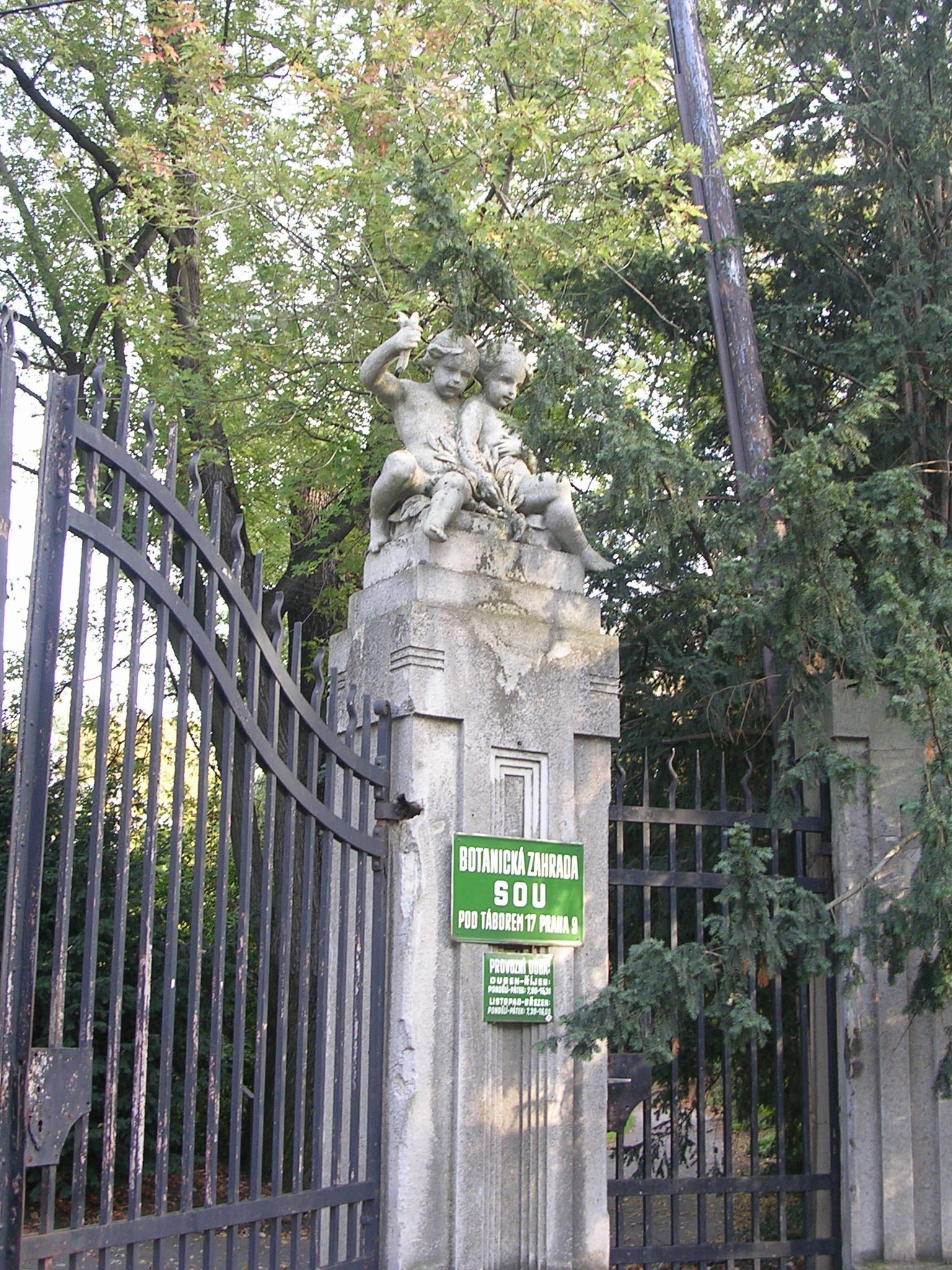 Prague-Malešice, Czech Republic. School botanic gardens.